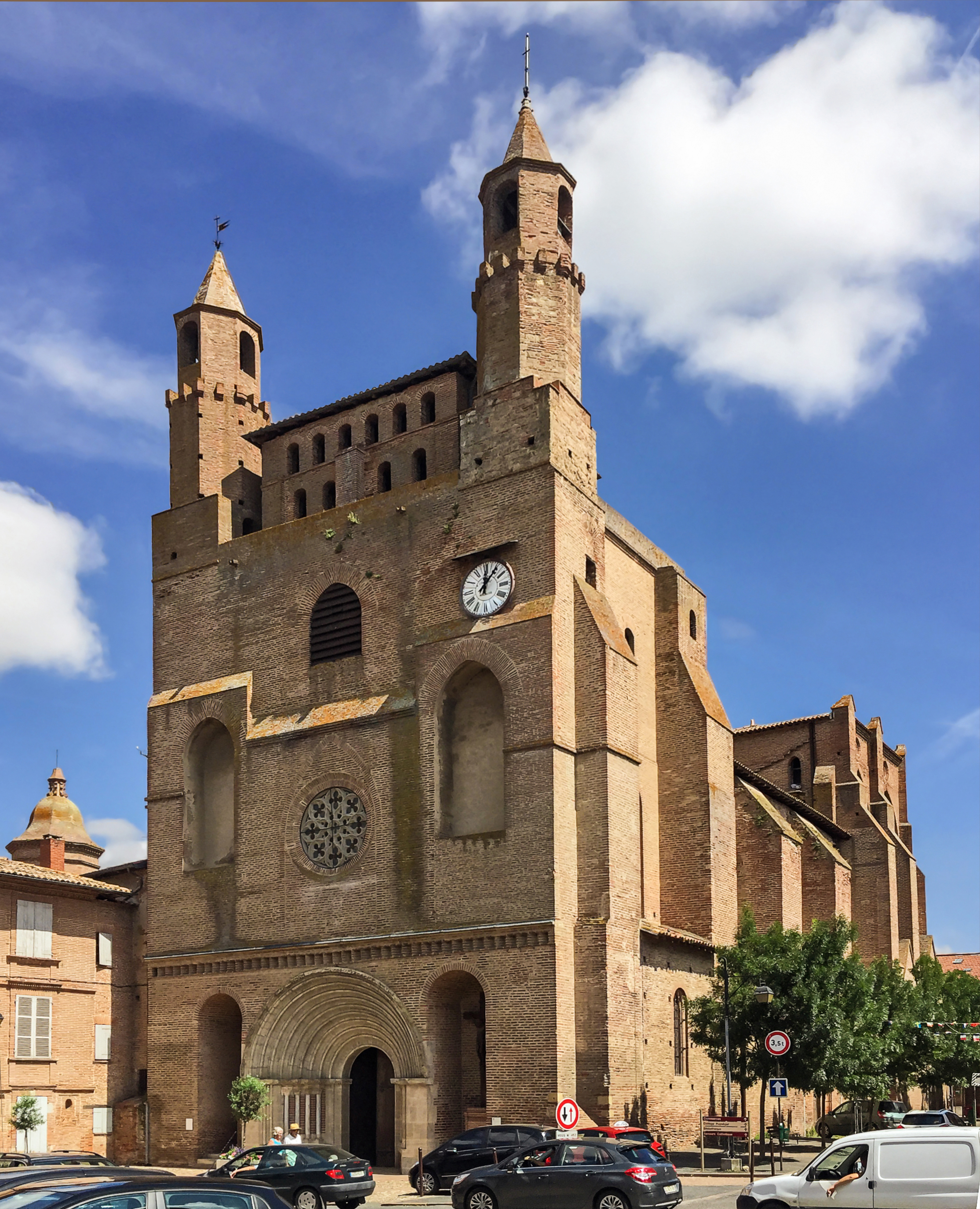 Church Notre-Dame-du-Bourg in Rabastens, France.